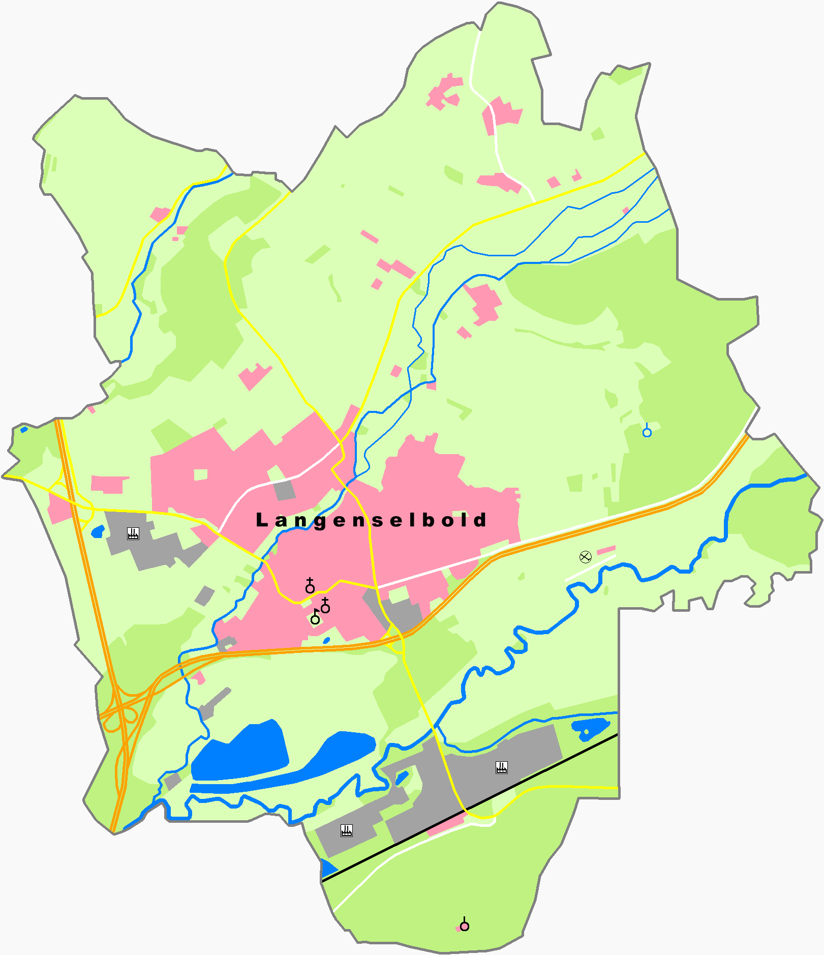 Municipal area of Langenselbold Grassland, Meadow Settlement area Industrial area Forest Body of water Municipal border Freeway Main street Side street Railway Industrial park Church Observation tower Water tower Château Aerodrome